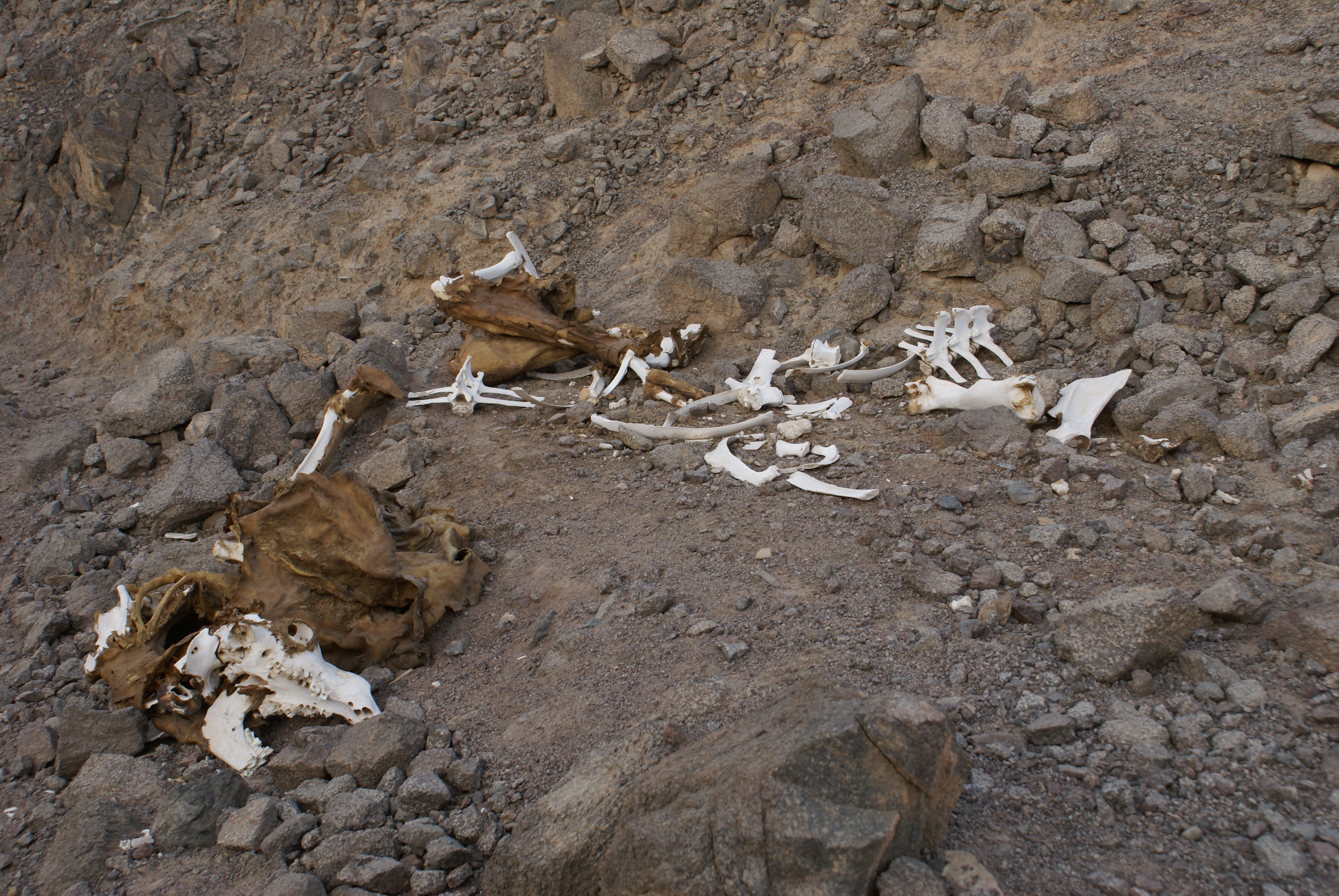 The carcass of a dromedary (Camelus dromedarius) on a steep mountain path on the Sinai Peninsula, Egypt. The cause and time of death could not be determined. Dried, leathery skin of the animal is still present, and the bones have been disordered, possibly by scavengers. Exact geolocation was not possible.